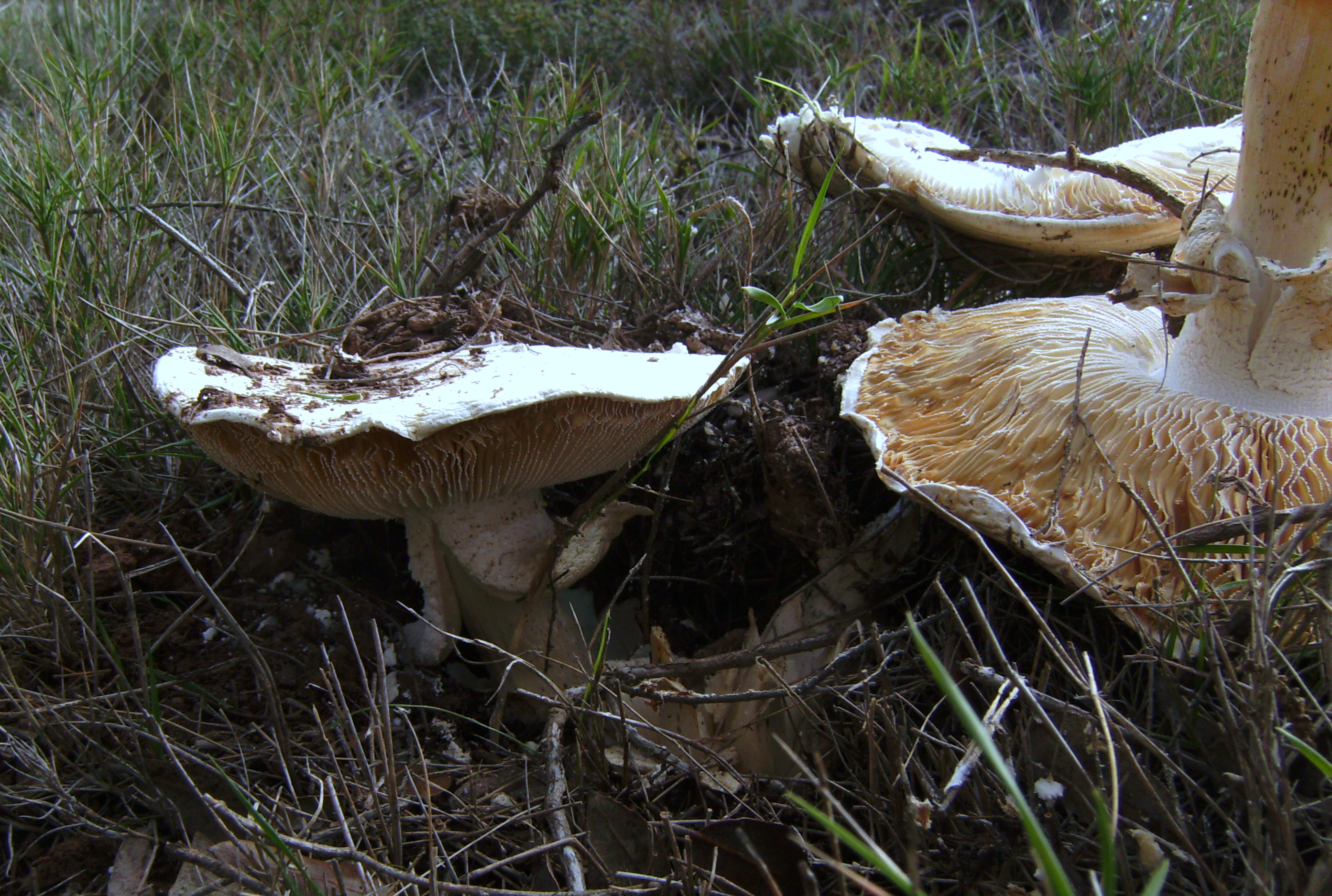 Amanita ovoidea, an old specimen (holmoak), Castelltallat, Catalonia